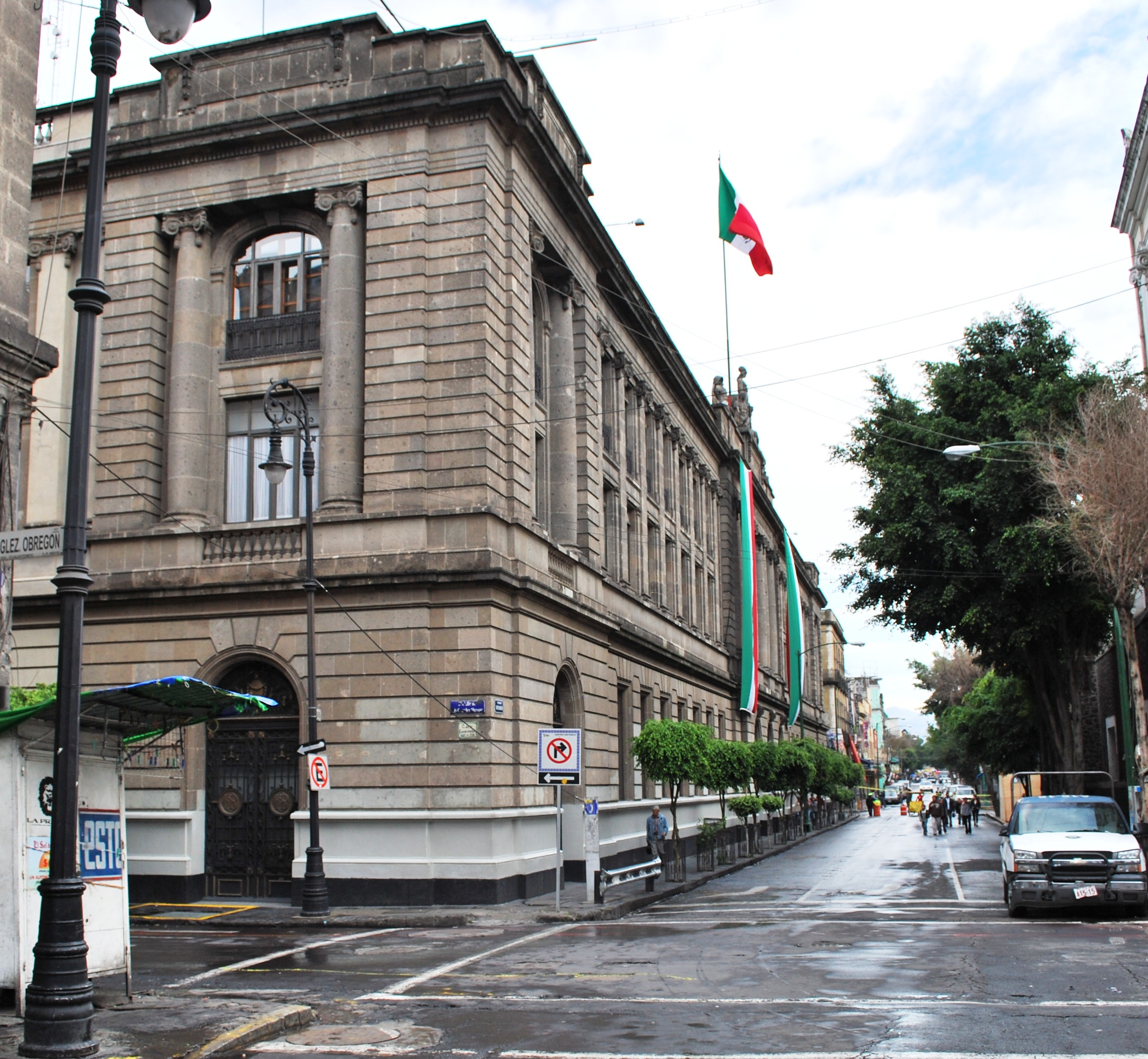 Main facade of the Secretariat of Public Education Building looking north on Republica de Argentina Street in the historic center of Mexico City